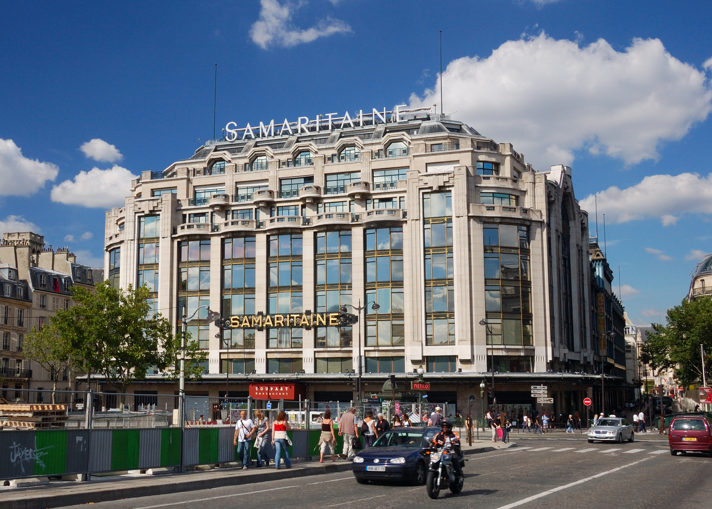 The "La Samaritaine" department store in Paris, France. Photo taken from the Pont Neuf.